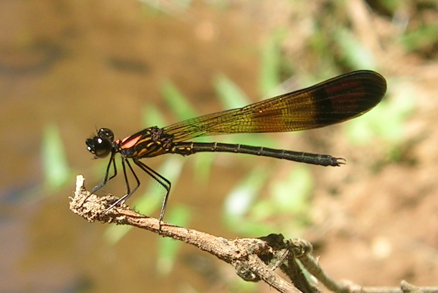 Rhinocypha bisignata (Stream ruby) from Wynaad